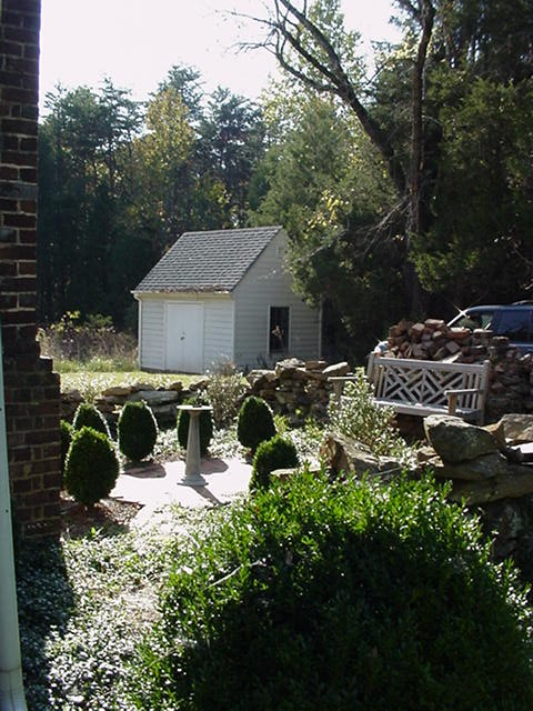 Image taken by Anne Wilson of the Society of the Descendants of Peter Francisco; she has allowed its use on Wikipedia